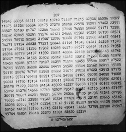 The microphoto of ten columns of typewritten numbers contained inside the hollow nickel which became known as the Hollow Nickel Case, 1953 - 1957.